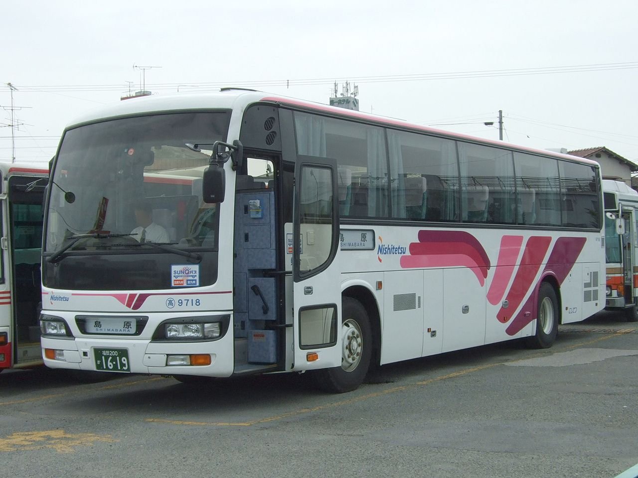 Nishitetsu Highway Bus "Shimabara-go". See below.